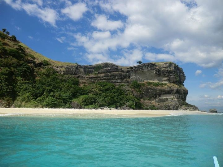 Beach in Capones Island, off the coast of Zambales, Philippines